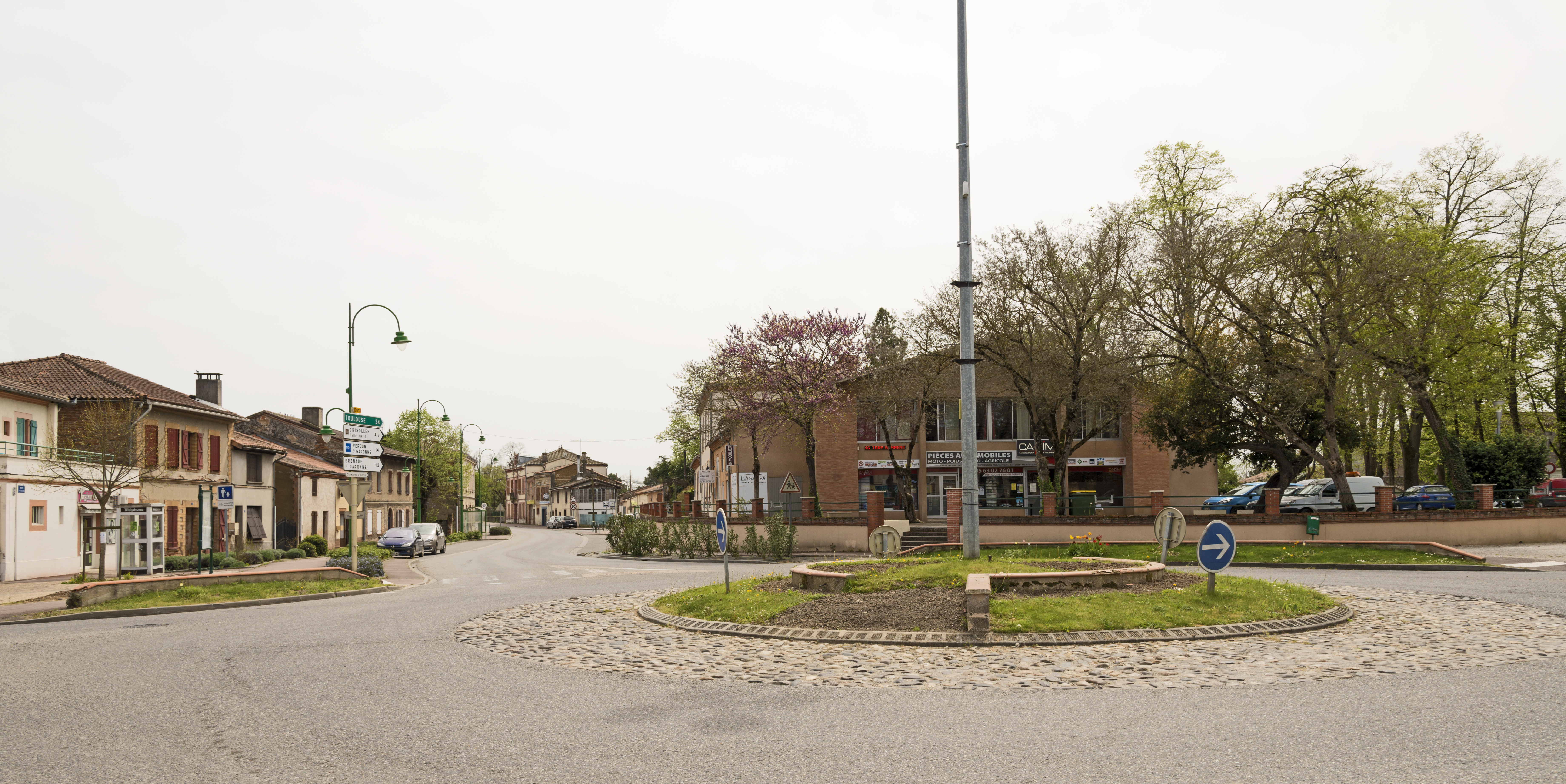 The roundabout, Toulouse road in Dieupentale, Tarn-et-Garonne France